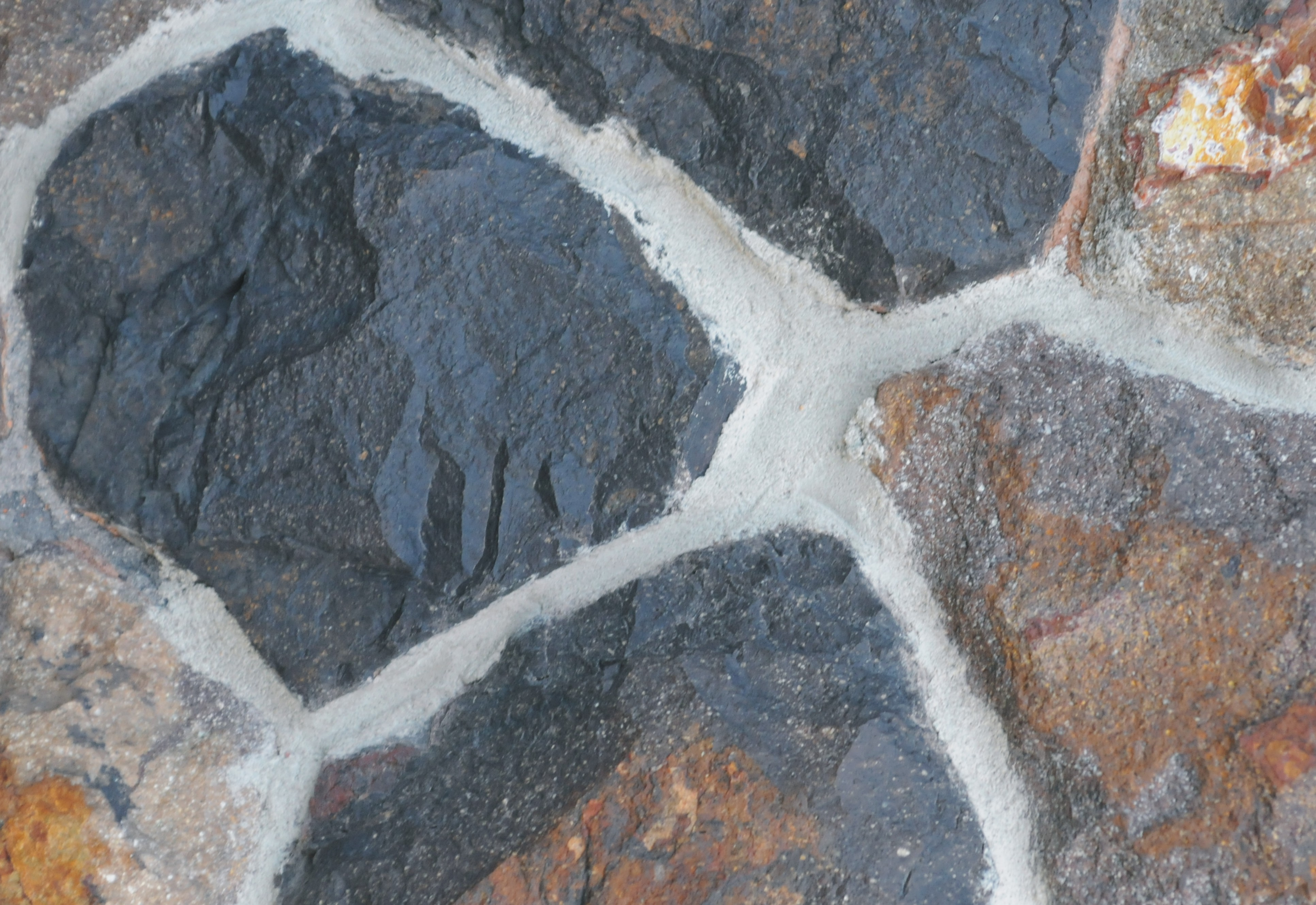 Pitchstone masonry near Chemnitz (Saxony, Germany), in the intramontane sedimentary depression with rhyolitic structures between Chemnitz and Zwickau